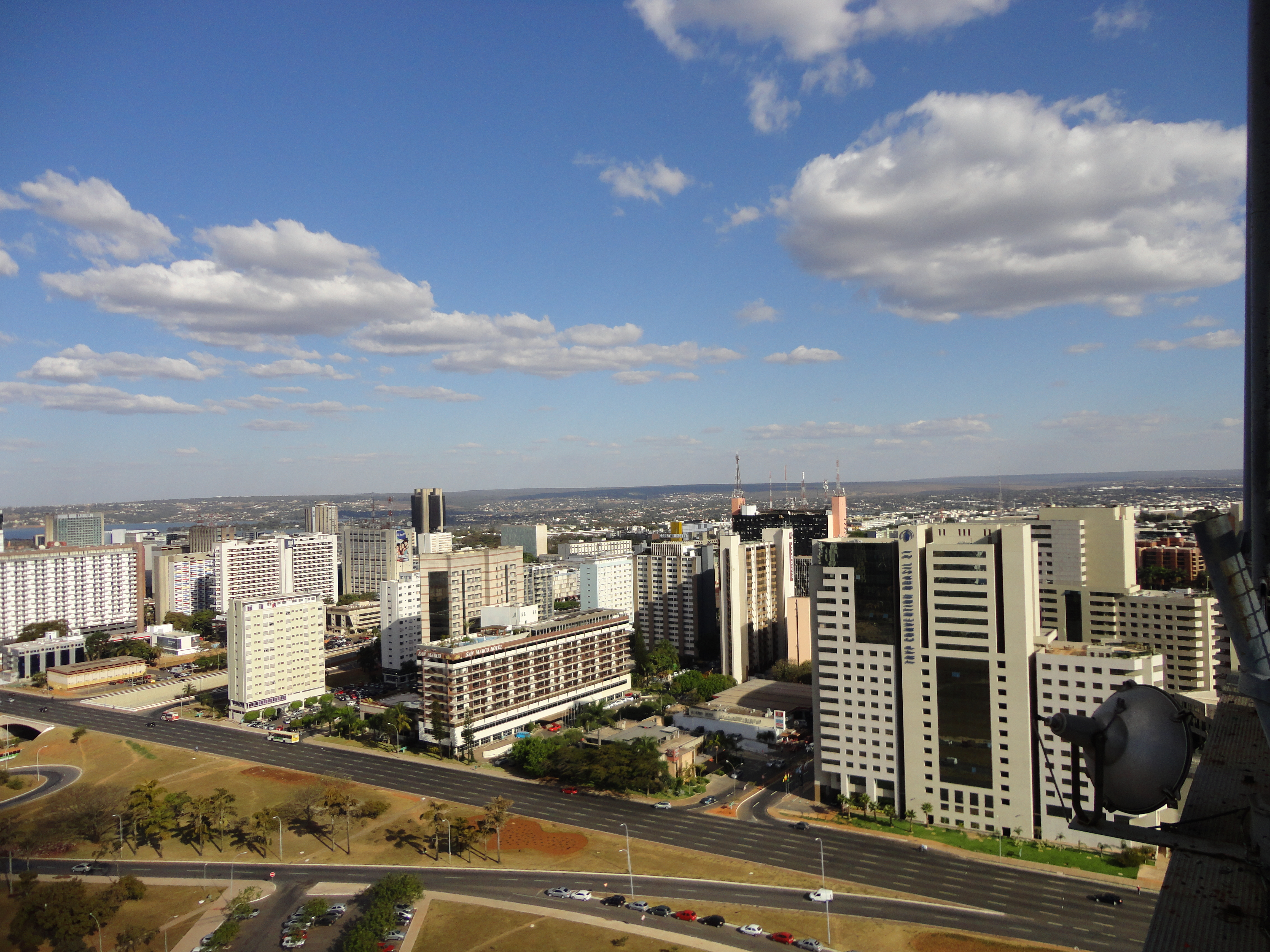 View of Brasília, Brazil